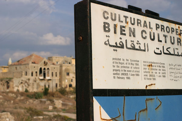 A large sign which marks the ancient city of Tyre in Lebanon as protected cultural property according to the 1954 Convention for the Protection of Cultural Property in the Event of Armed Conflict